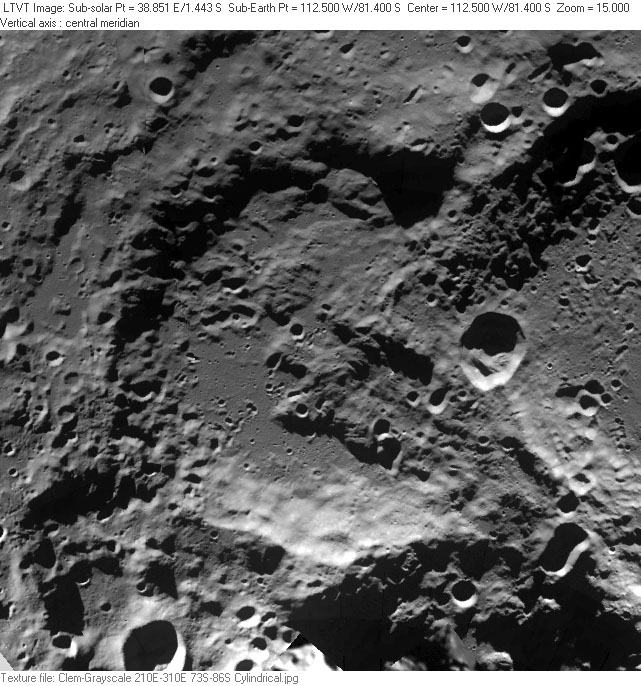 The floor of Ashbrook (center) is overlain by a massive flow from neighboring 149-km Drygalski (on the right).